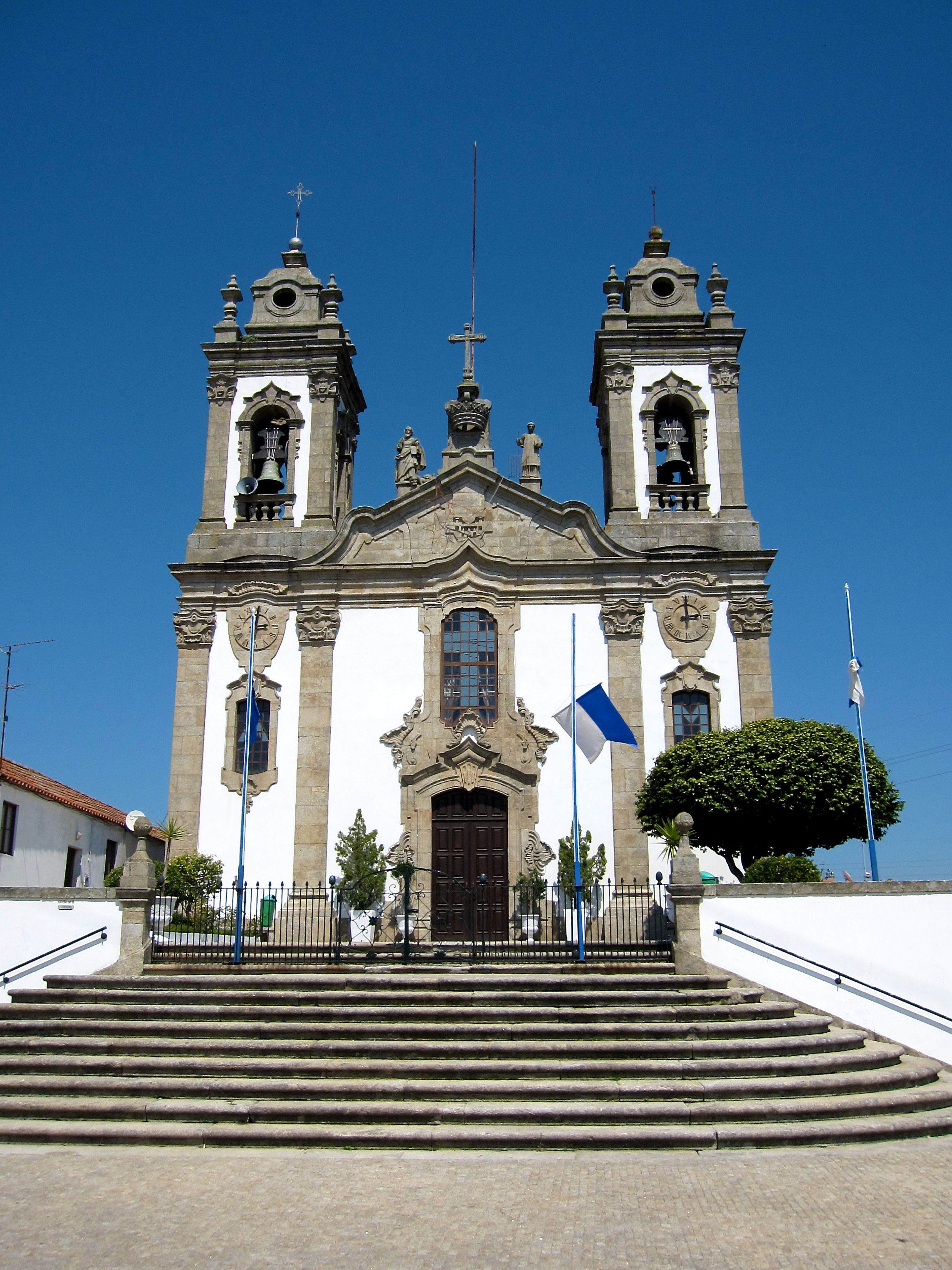 This file was uploaded for Wiki Loves Monuments in Portugal with the unique identifier 5961059.